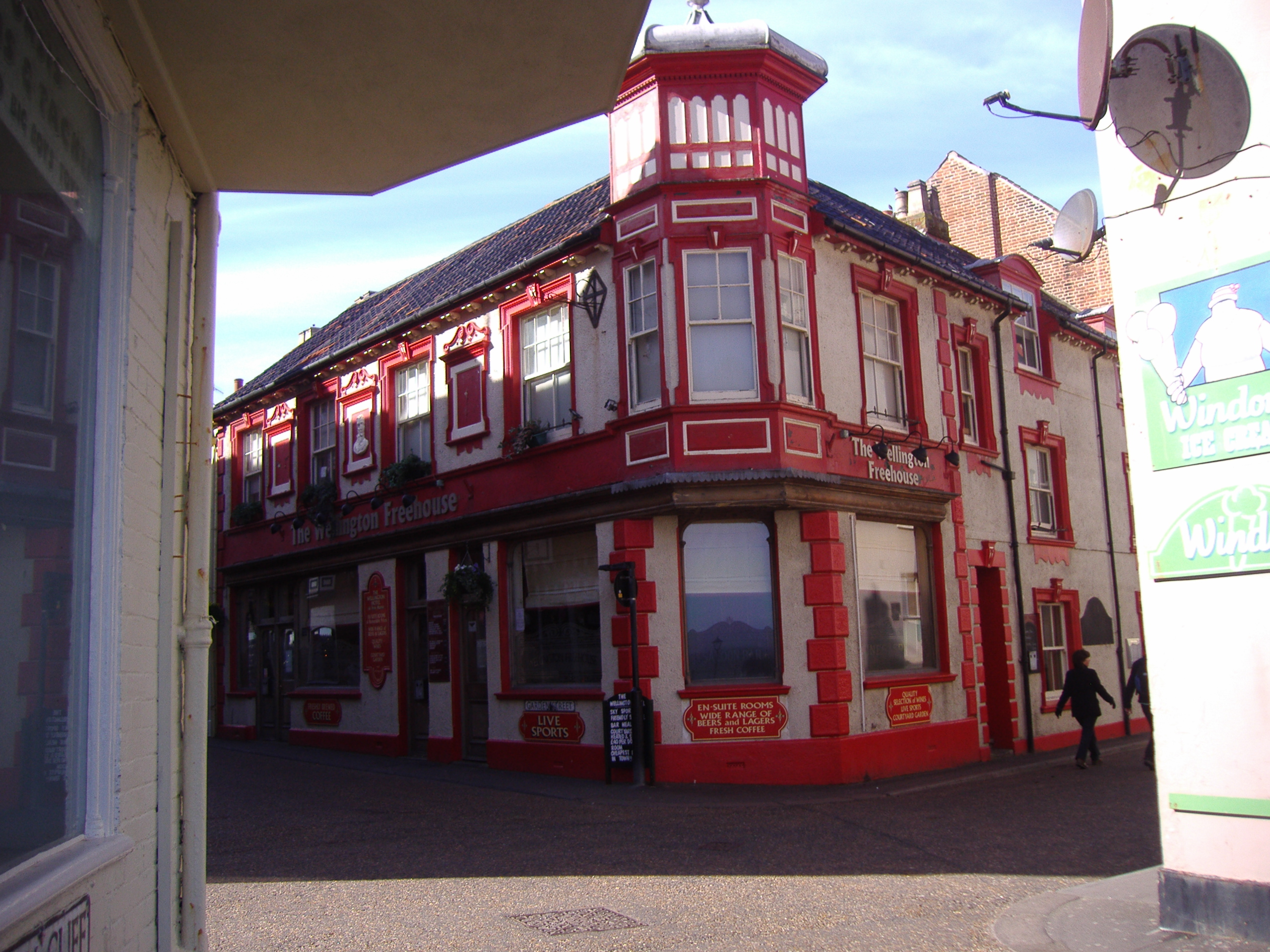 The Wellington Public House is located on the corner of Garden Street with New Street within the town of Cromer, Norfolk Seen in Partners in Crime: "N or M?" (2015).